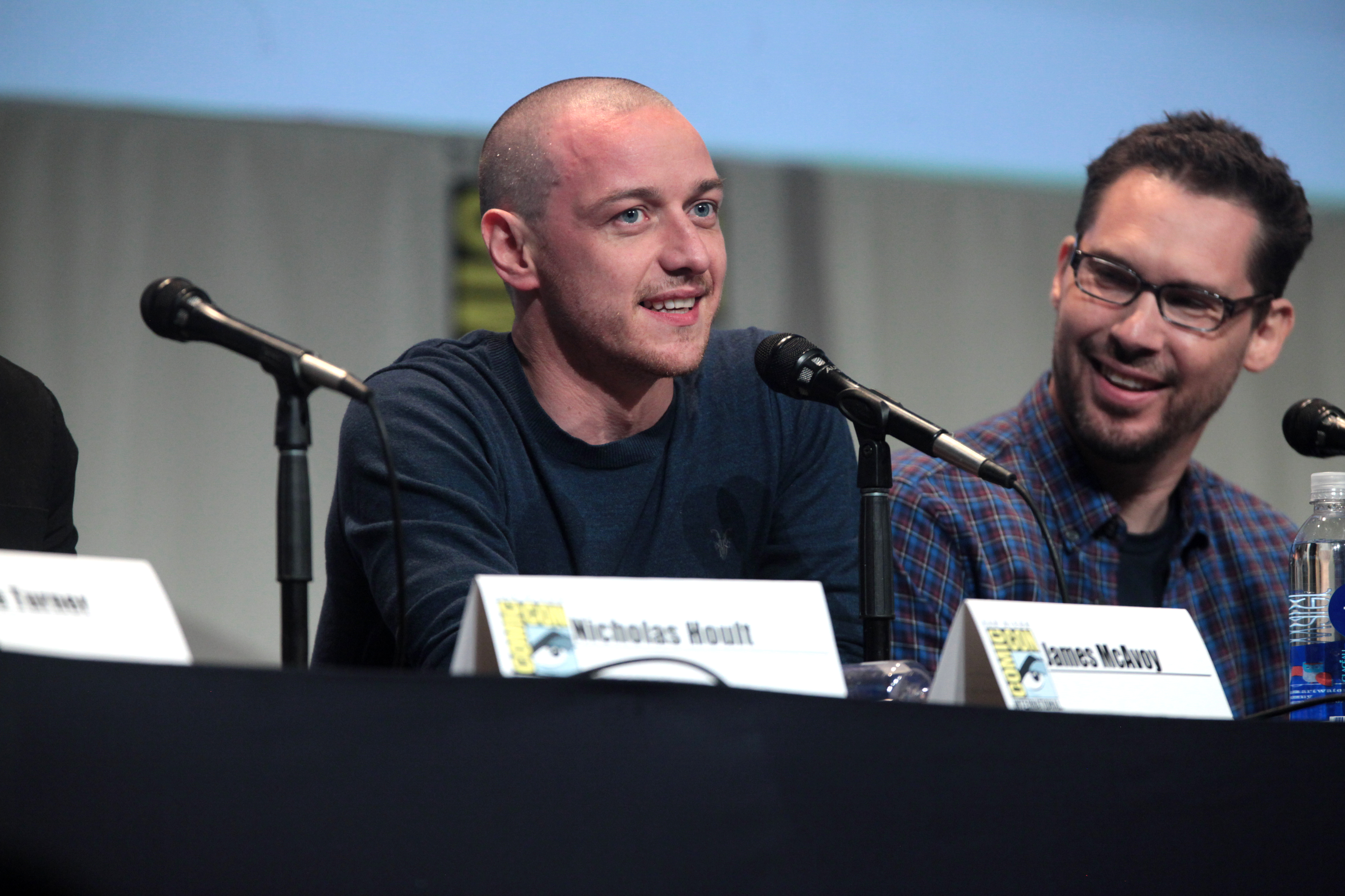 James McAvoy and Bryan Singer speaking at the 2015 San Diego Comic Con International, for "X-Men: Apocalypse", at the San Diego Convention Center in San Diego, California.